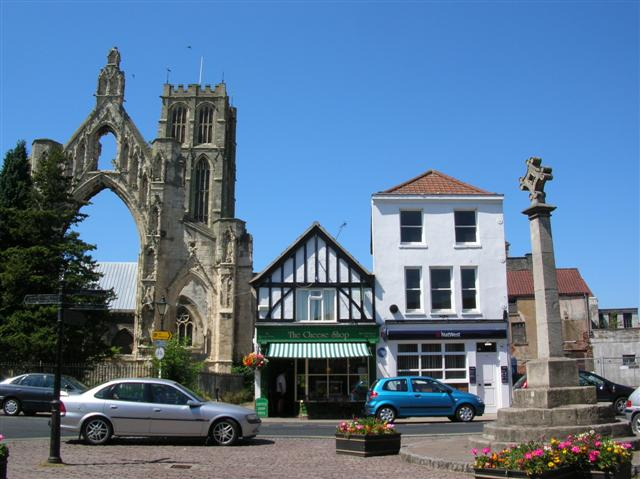 Howden Minster & Market Cross, Howden, East Riding of Yorkshire, England. The centre of Howden. The village houses the headquarters of the Press Association